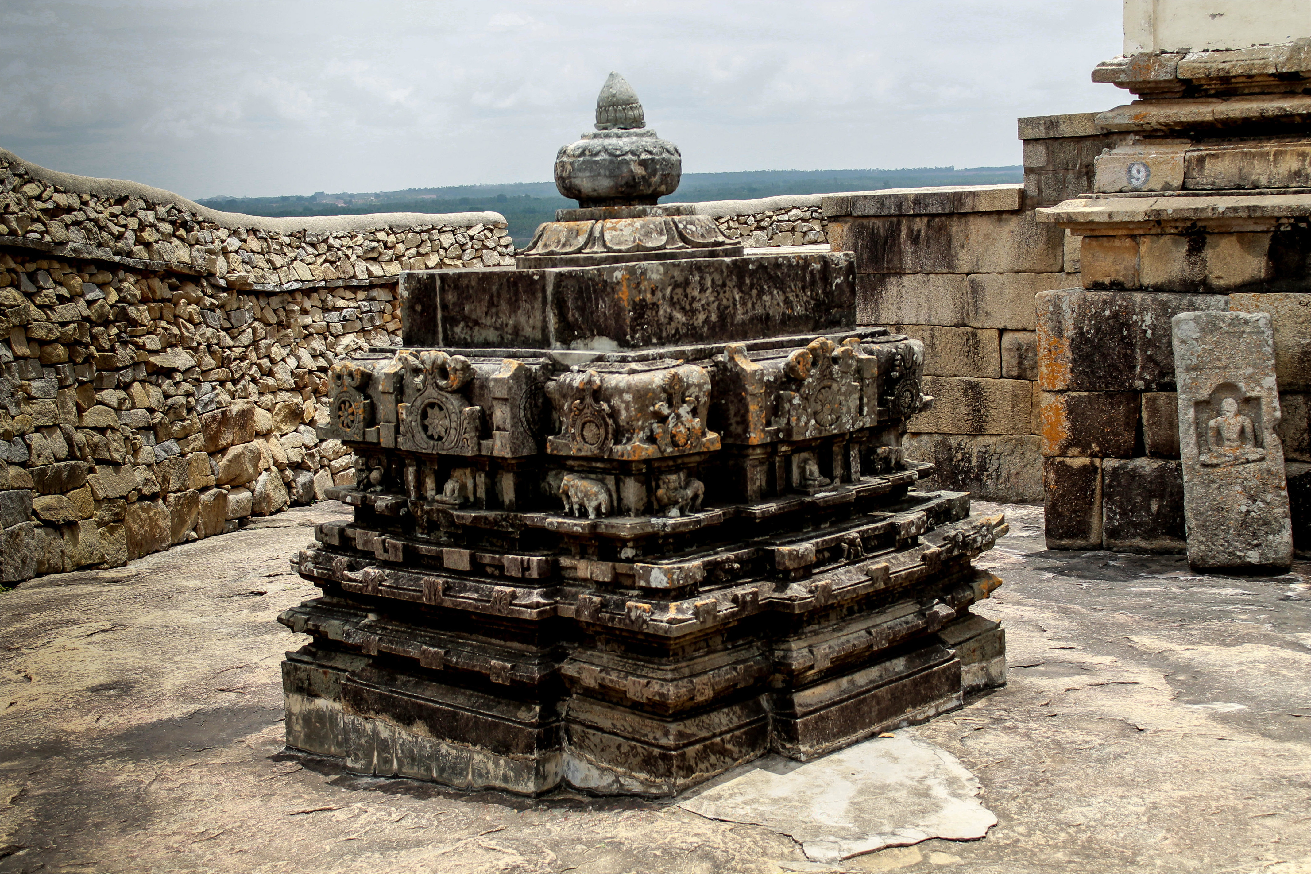 This image is captured in one of the basadi in chandragiri, shravanbelagola